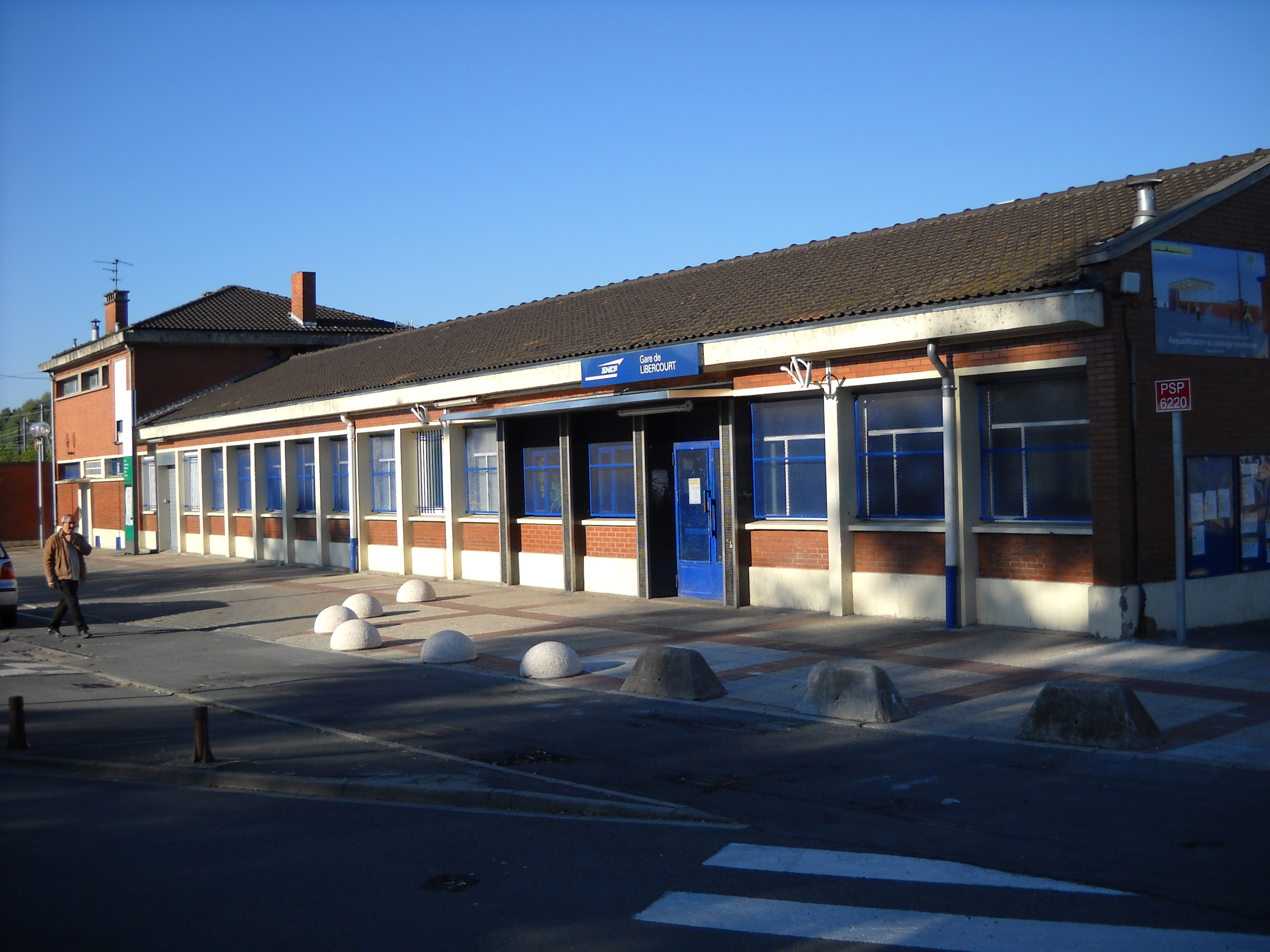 The train station of Libercourt, Pas-de-Calais, France.